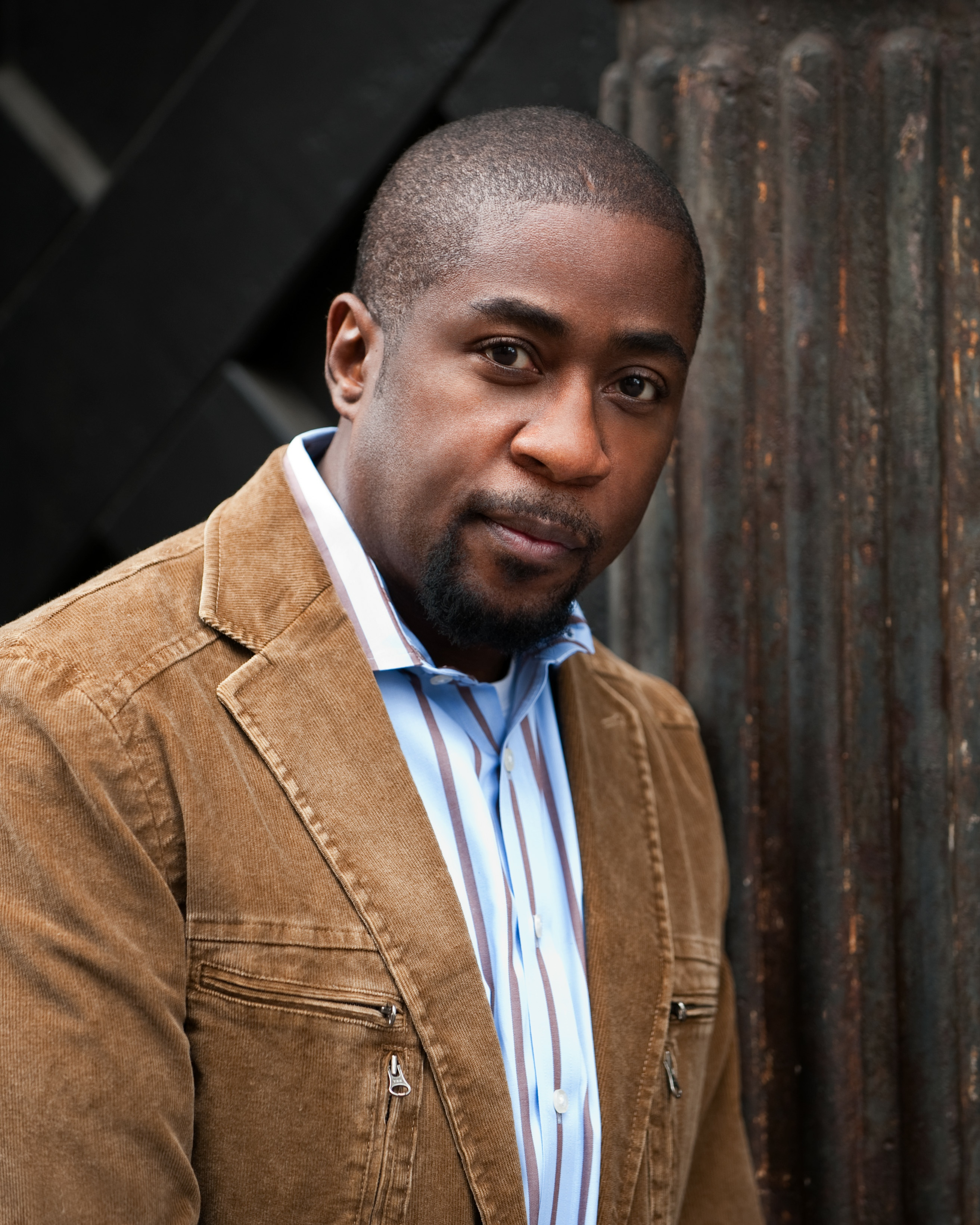 Keith Robinson Promotional Headshot )